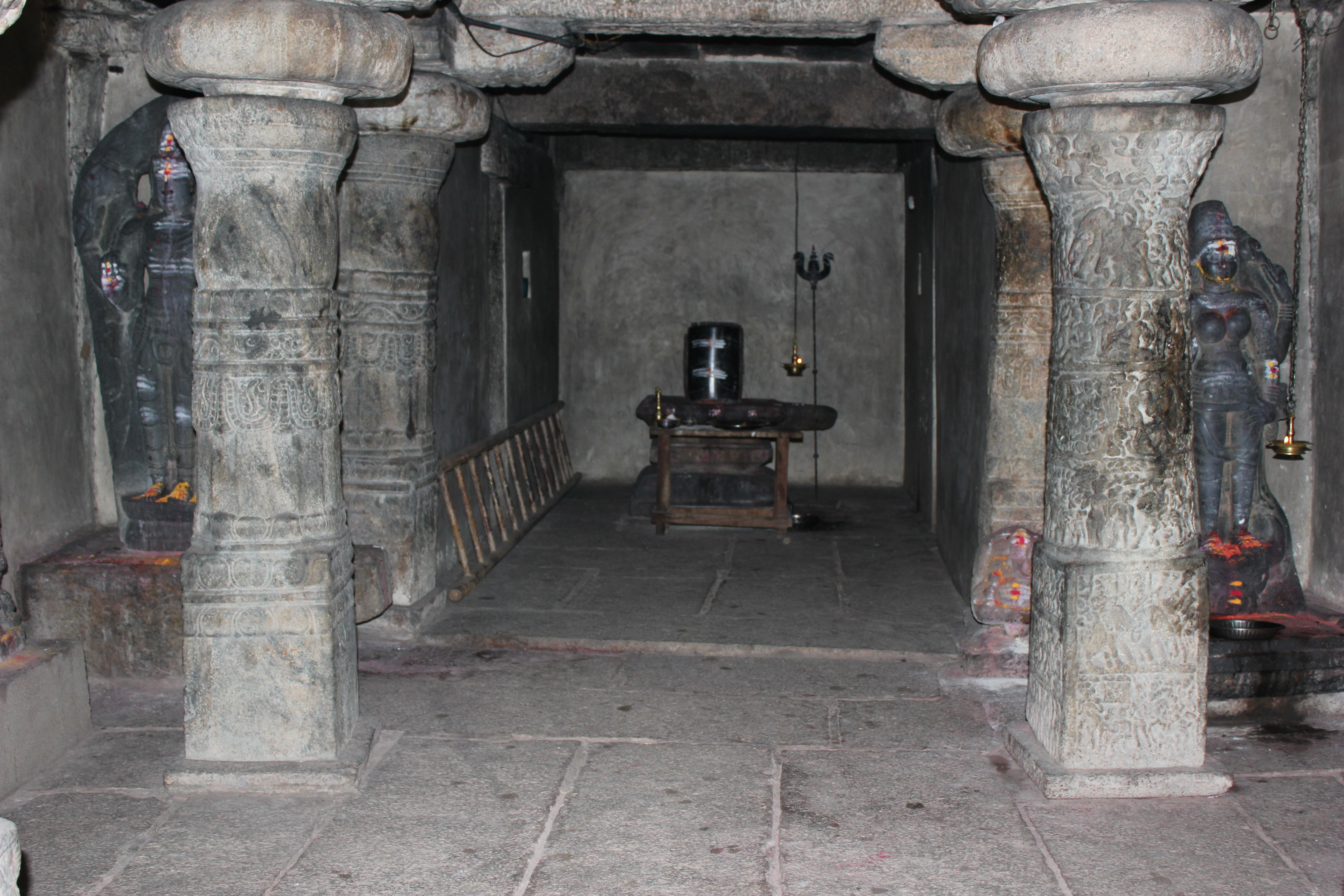 This image was taken by self (Dinesh Kannambadi) at the Arakeshwara temple (also spelt Arakeshvara or Arakesvara) in Hole Alur, Chamarajanagar district, Karnataka state, India. The temple was built by Butuga II (A.D. 939-960) of the Western Ganga dynasty (a Rashtrakuta empire vassal) as a fitting finale to his victory over the Cholas of Tanjore at the battle of Takkolam